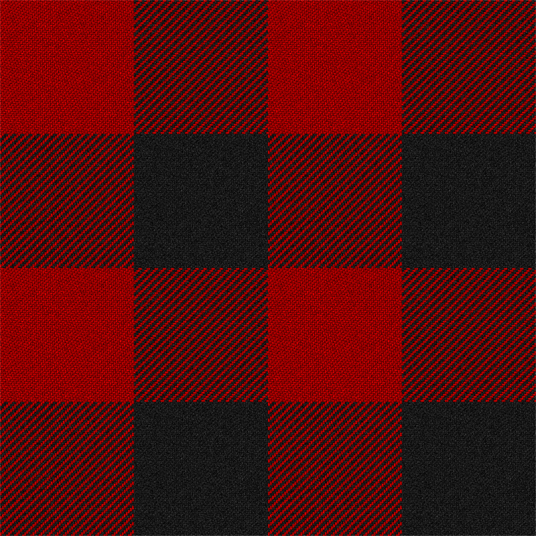 A digital representation of the MacGregor Red & Black tartan. It is also known as Rob Roy Macgregor. The thread count used to create this image was Red-66, Black-66.